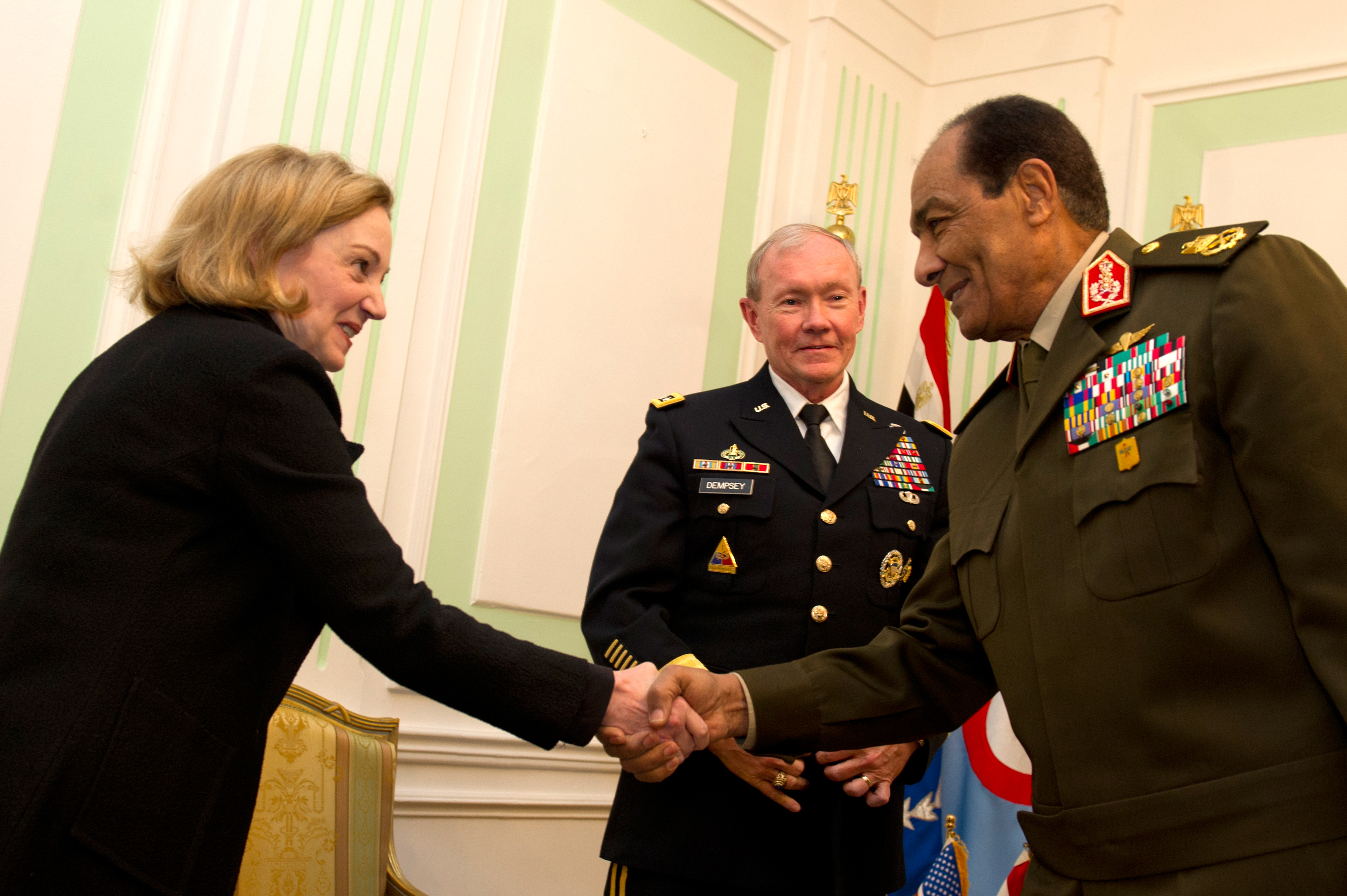 American Ambassador to Egypt Anne W. Patterson, Chairman of the Joint Chiefs of Staff Gen. Martin E. Dempsey and Field Marshal Mohammed Hussein Tantawi at the Egyptian Ministry of Defense in Cairo, Egypt, Feb. 11, 2012. DoD photo by D. Myles Cullen